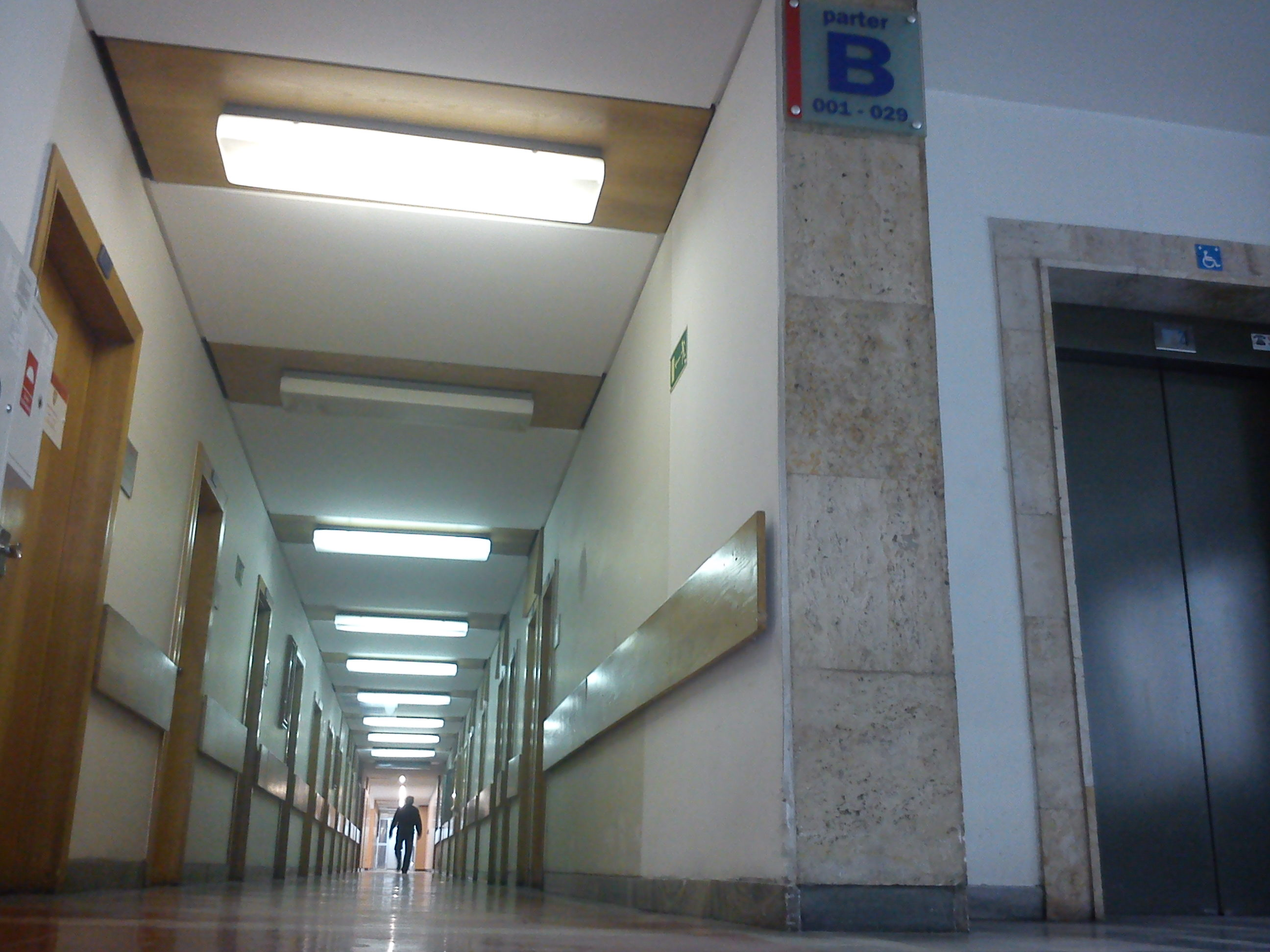 Voiev. Office, Poznan, interior.